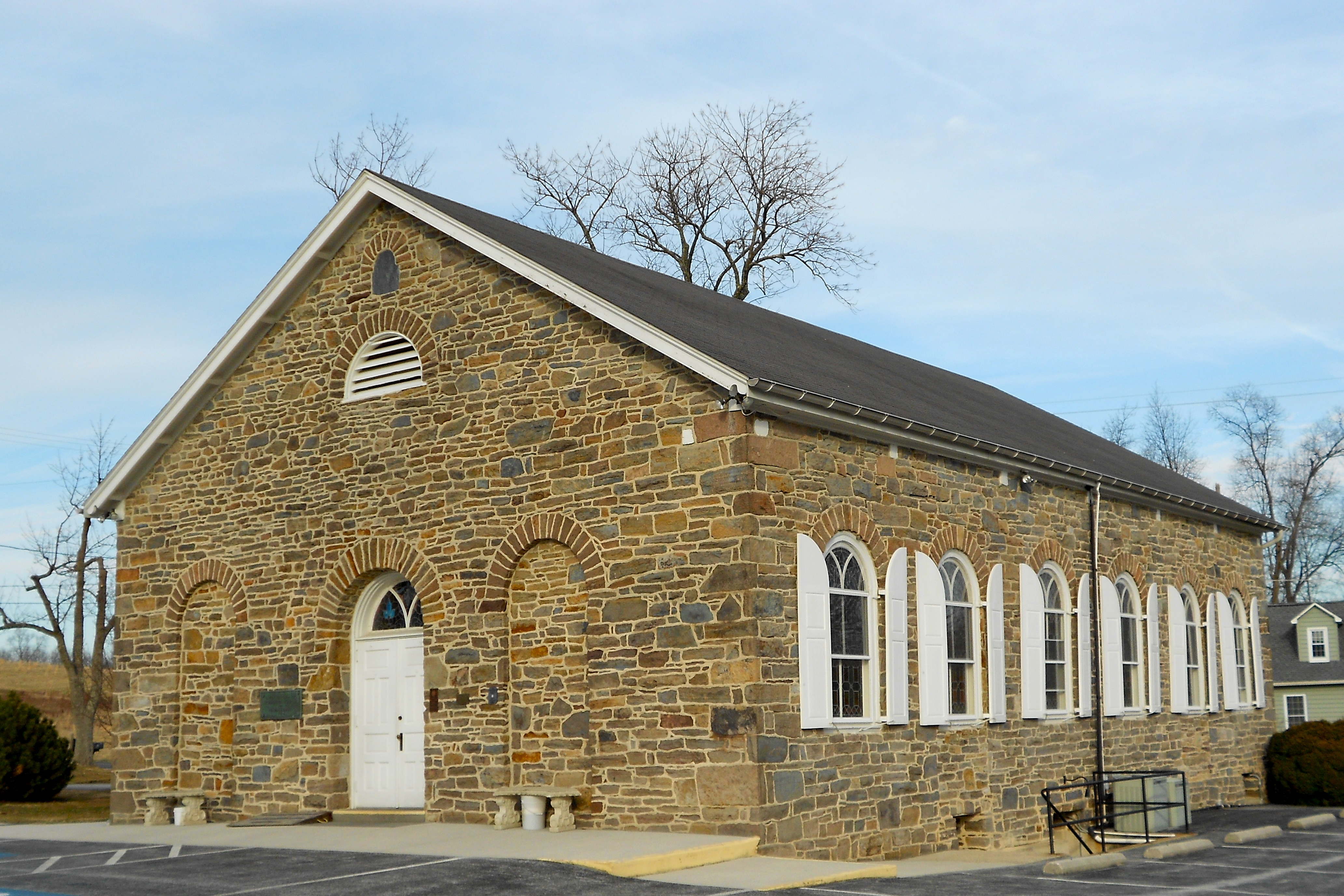 Lower Marsh Creek Presbyterian Church on the NRHP since October 15, 1980. Southeast of Orrtanna on Legislative Route 01002, Highland Township, Adams County, Pennsylvania